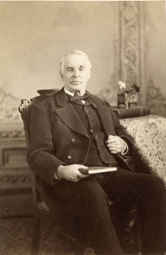 Image of Elias Smith, by Charles Roscoe Savage, held by The Church of Jesus Christ of Latter-day Saints.